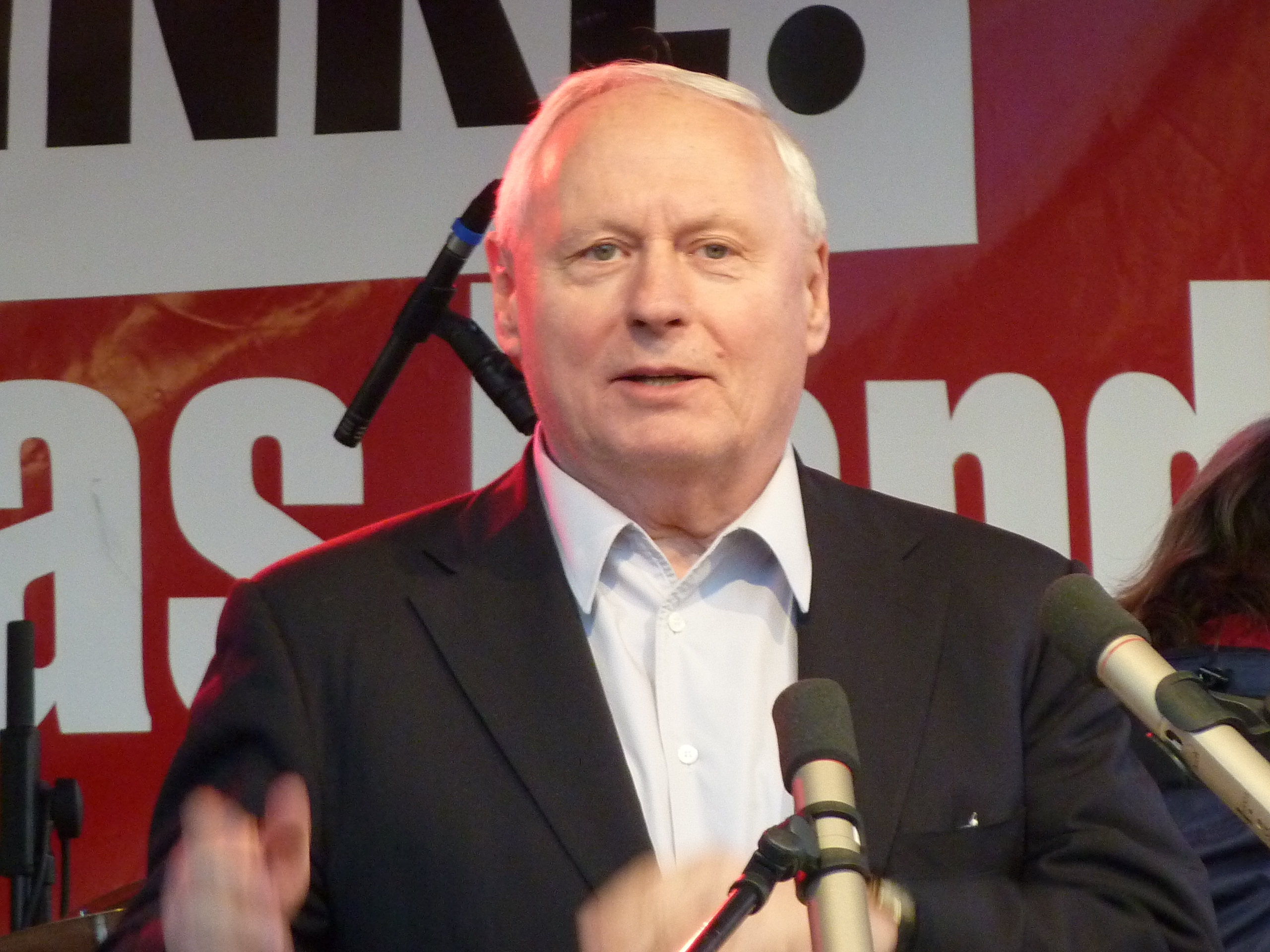 Oskar Lafontaine speaking at an election campaign rally organized by the party Die Linke at the Rathausplatz, Freiburg, Germany, on March 21, 2011.